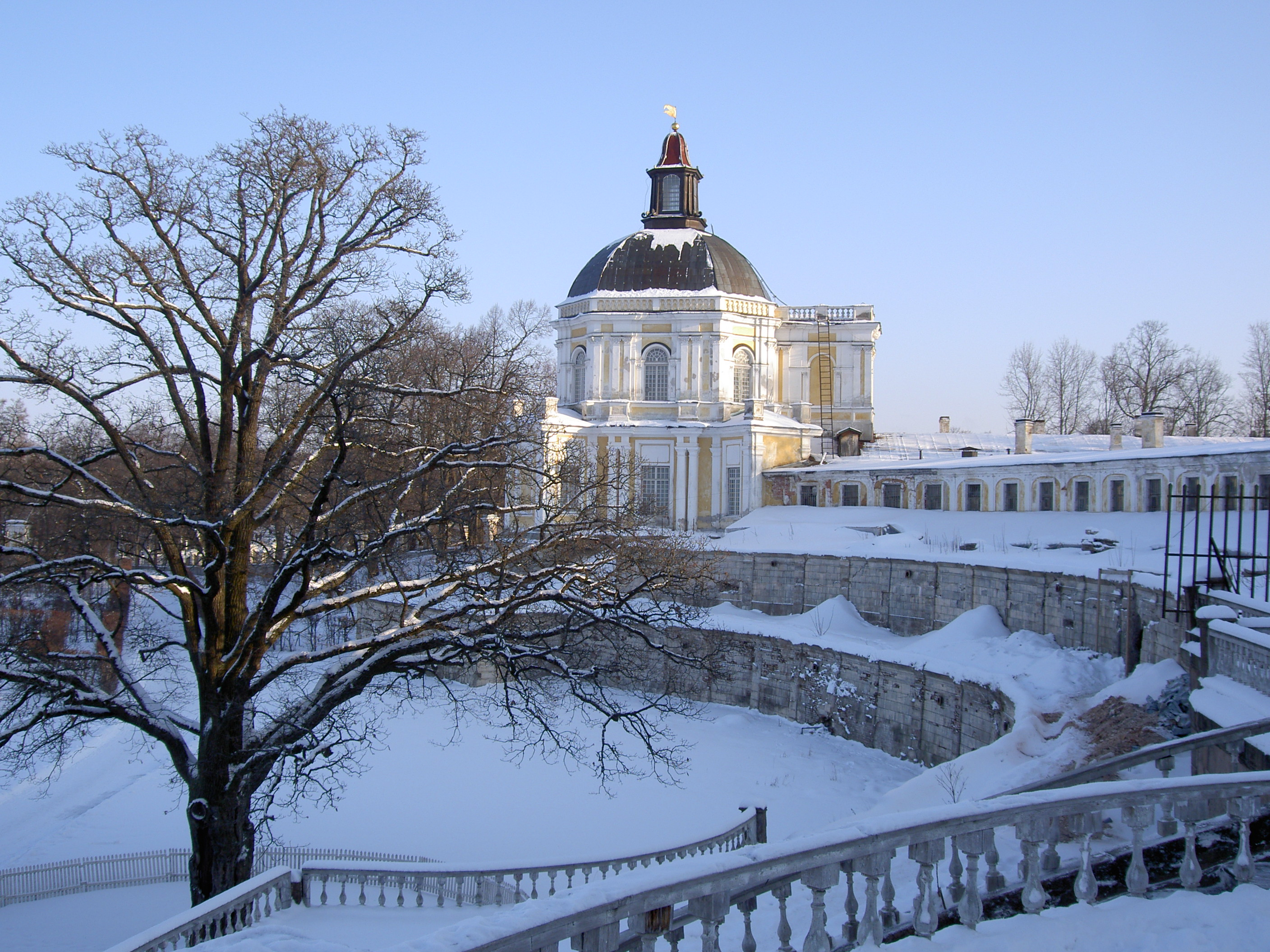 Eastern part of Grand Menshikov Palace in Oranienbaum